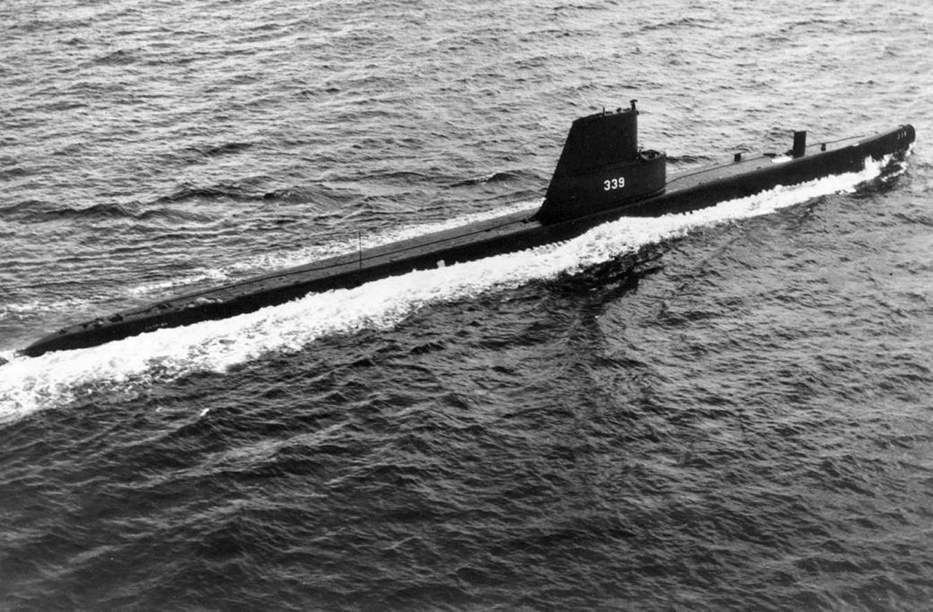 The U.S. Navy submarine USS Catfish (SS-339) starboard view, underway, during her visit to the Far East, 1956. Catfish was sold to Argentina in 1971 and renamed ARA Santa Fe (S-21).